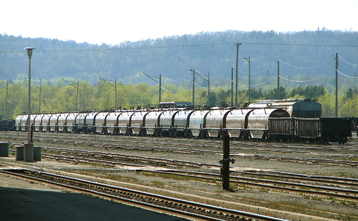 Rail yard in Capreol, Greater Sudbury, Ontario, Canada